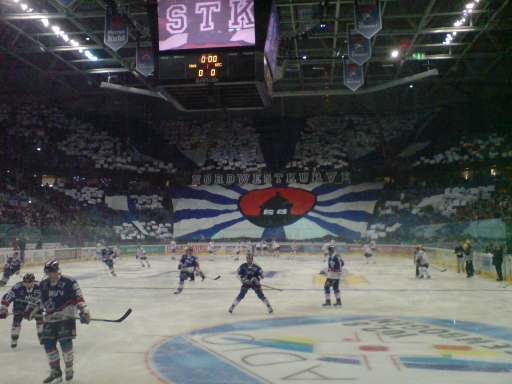 Supporters of Adler Mannheim